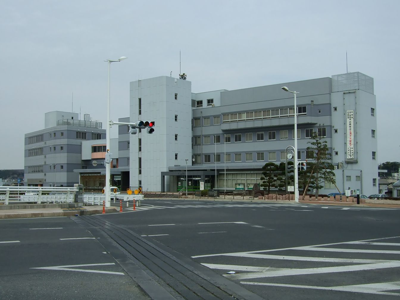 Nakama City office